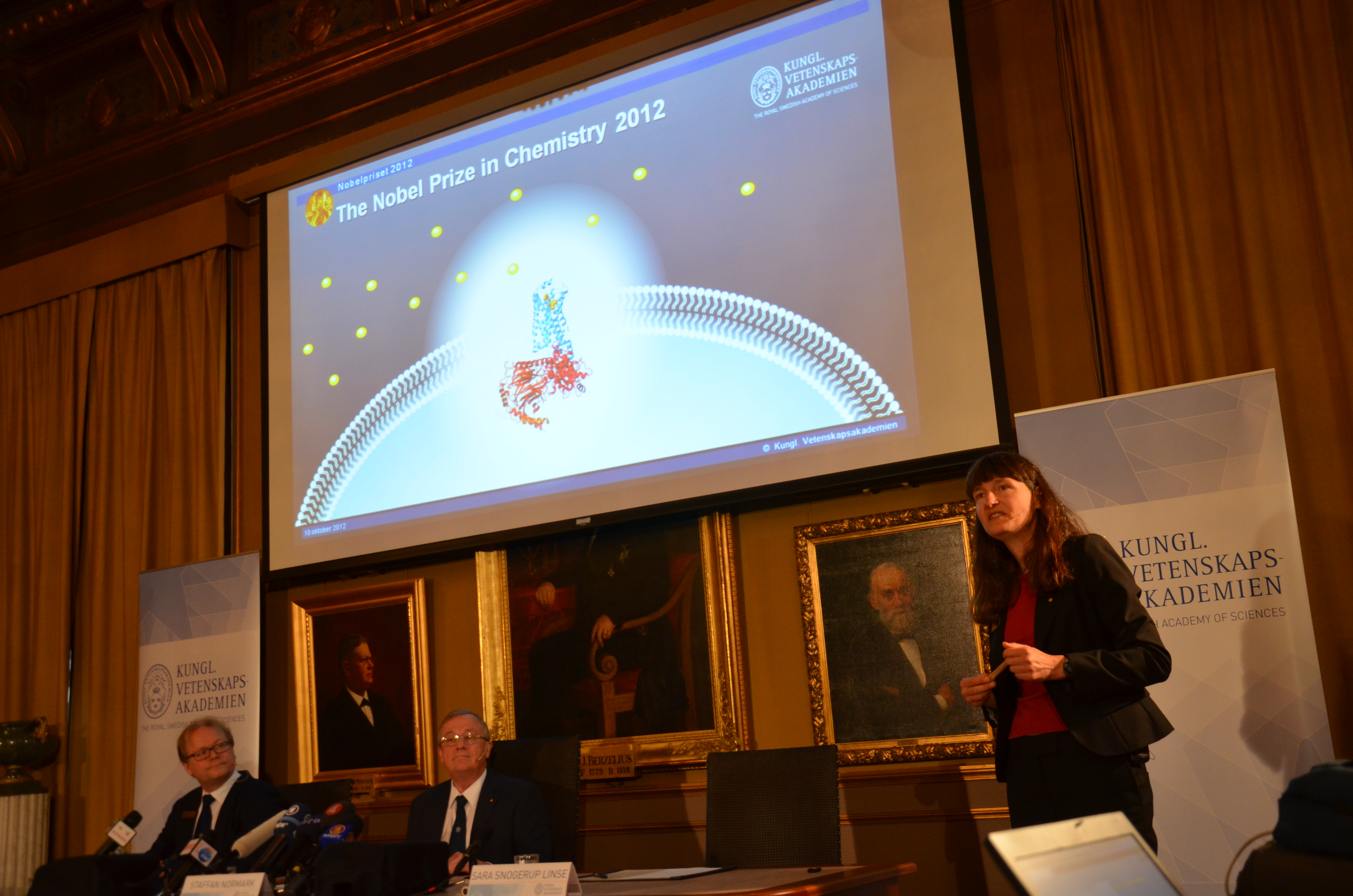 Announcement of Nobel Prize Laureates in Chemistry 2012, at the Royal Swedish Academy of Sciences, October 10, 2012. Presenting of the research on G-protein-coupled receptors by professor Sara Snogerup Linse. Seated prized committee member Sven Lidin (to the left) and Academy Secretary Staffan Normark.